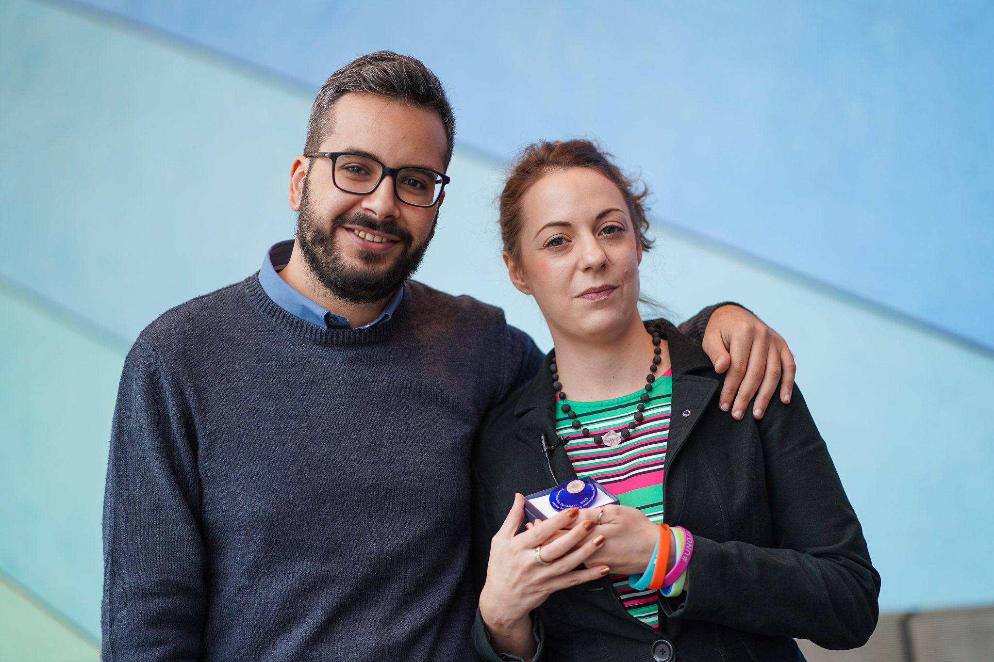 The 2019 prize went to Europhonica IT, a radio show for students and young professionals. The second prize went to Finnish project Your European Citizenship where people could learn about the EU's decision-making process and European cultures. The third prize was awarded to the organisation Muslims against Anti-Semitism from Austria. Read our article here: This photo is free to use under Creative Commons license CC-BY-4.0 and must be credited: "CC-BY-4.0: © European Union 2019 – Source: EP". ( No model release form if applicable. For bigger HR files please contact: webcom-flickr(AT)